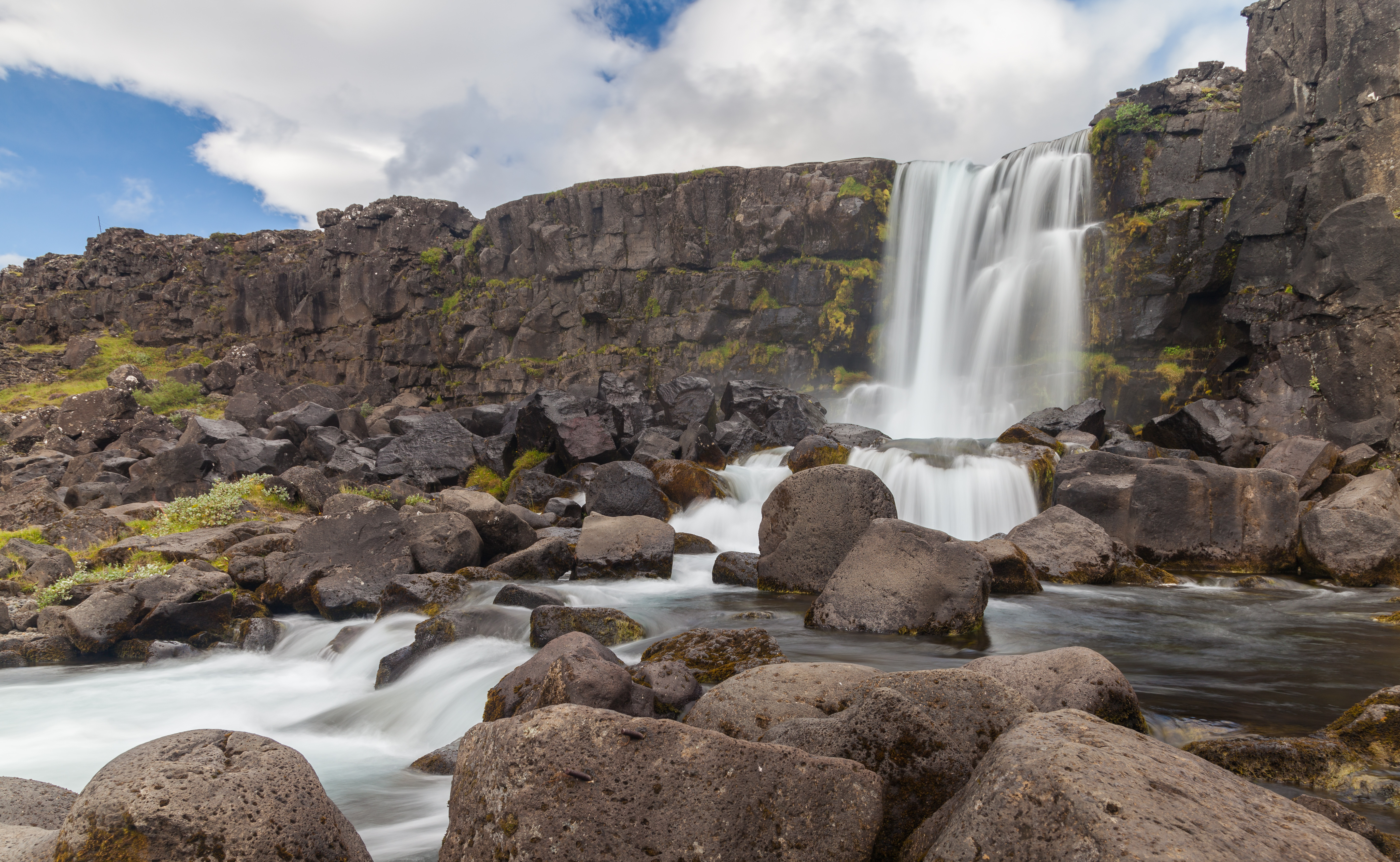 Öxarárfoss, Þingvellir National Park, Suðurland, Iceland. The 20 meter high waterfall flows from the Öxará river and is one of the most visited attractions in Þingvellir National Park, one of the two World Heritage sites in Iceland.